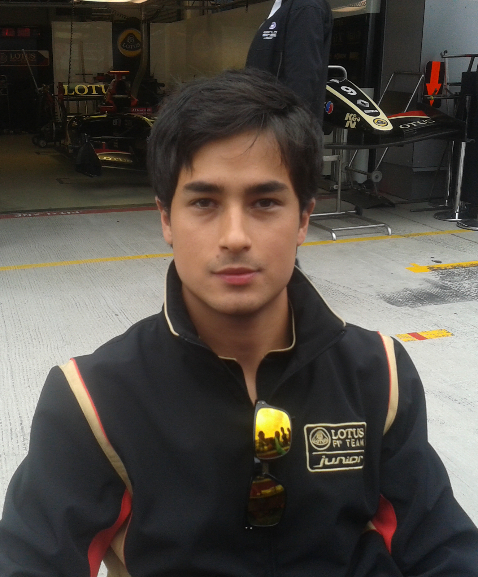 Marlon Stöckinger at Moscow Raceway, 22 June 2013